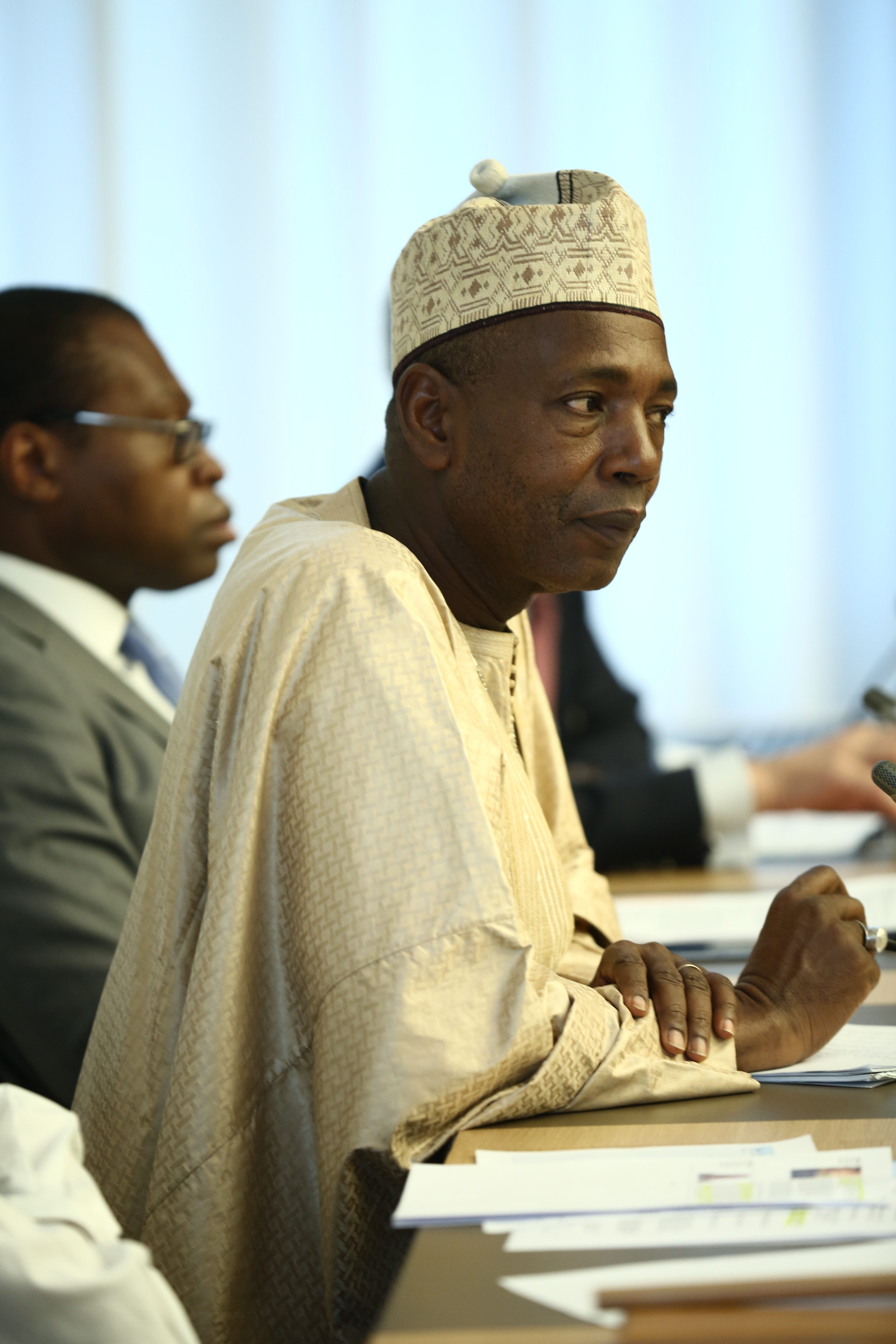 Photos from the WTO Aid for Trade Global Review 2017 photo gallery may be reproduced provided attribution is given to the WTO and the WTO is informed. Photos: © WTO/Jay Louvion